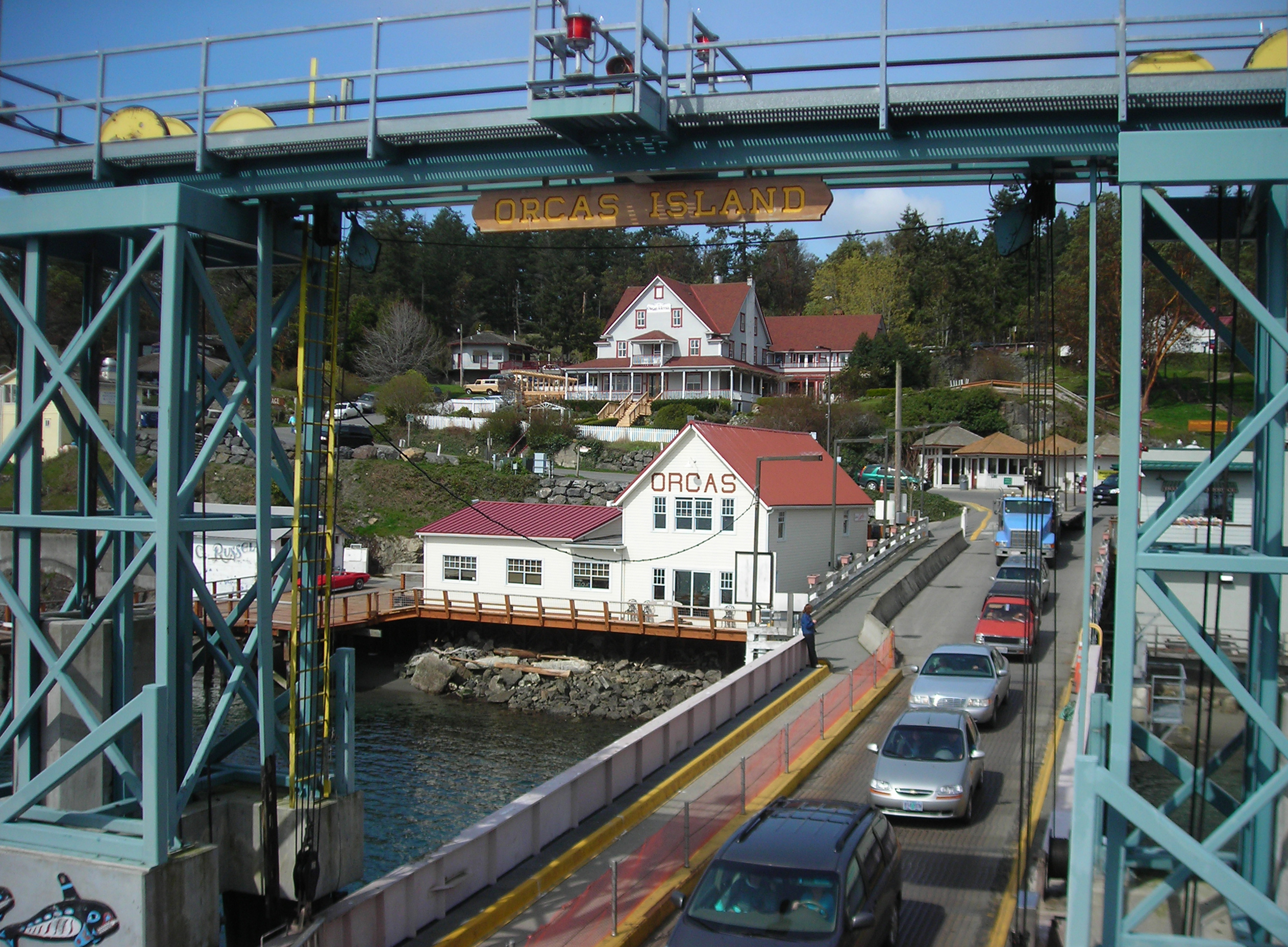 Orcas Island Ferry Landing - view from ferry